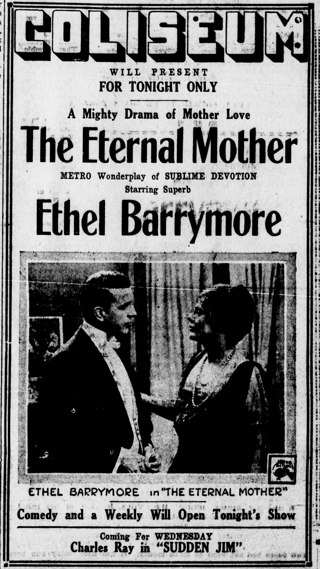 1919 advertisement for the 1917 film The Eternal Mother